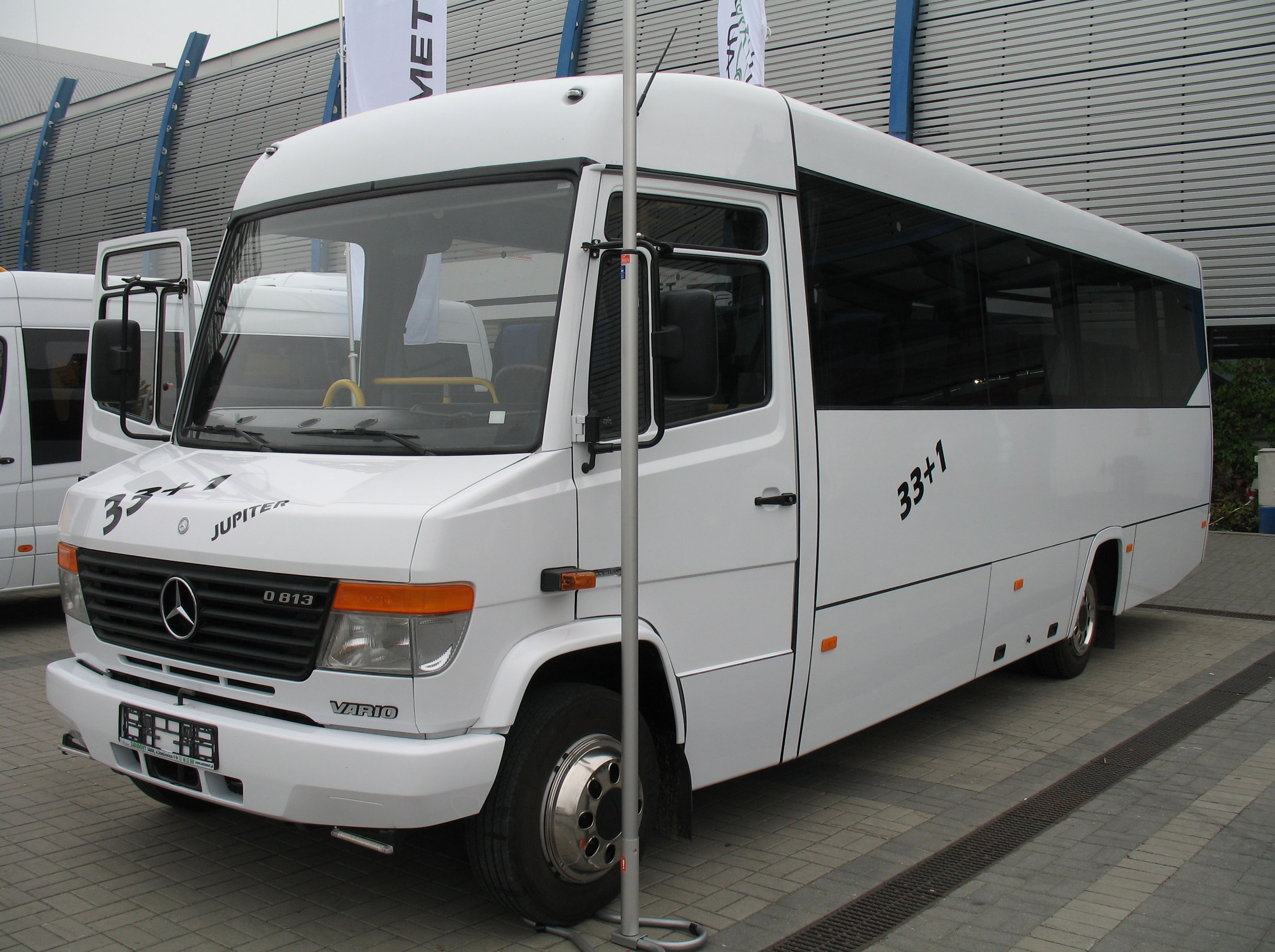 Automet Jupiter bus, based on Mercedes-Benz O 813D Vario, in Kielce, Poland. Built 2011. Transexpo 2011.